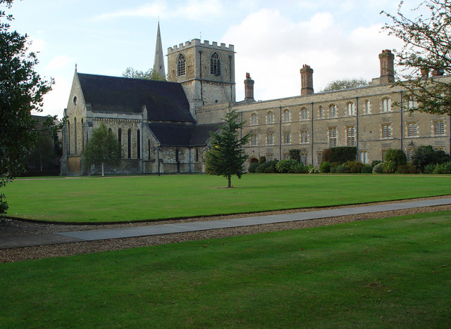 The Chapel, Jesus College, Cambridge This view is southwest across Chapel Court. The college was founded in 1496 by Bishop John Alcock of Ely, on the site of a Benedictine nunnery, and the old title: "The College of the Blessed Virgin Mary, Saint John the Evangelist and the glorious Virgin Saint Radegund, near Cambridge" became "Jesus College" from the dedication of the chapel. for more historical notes.